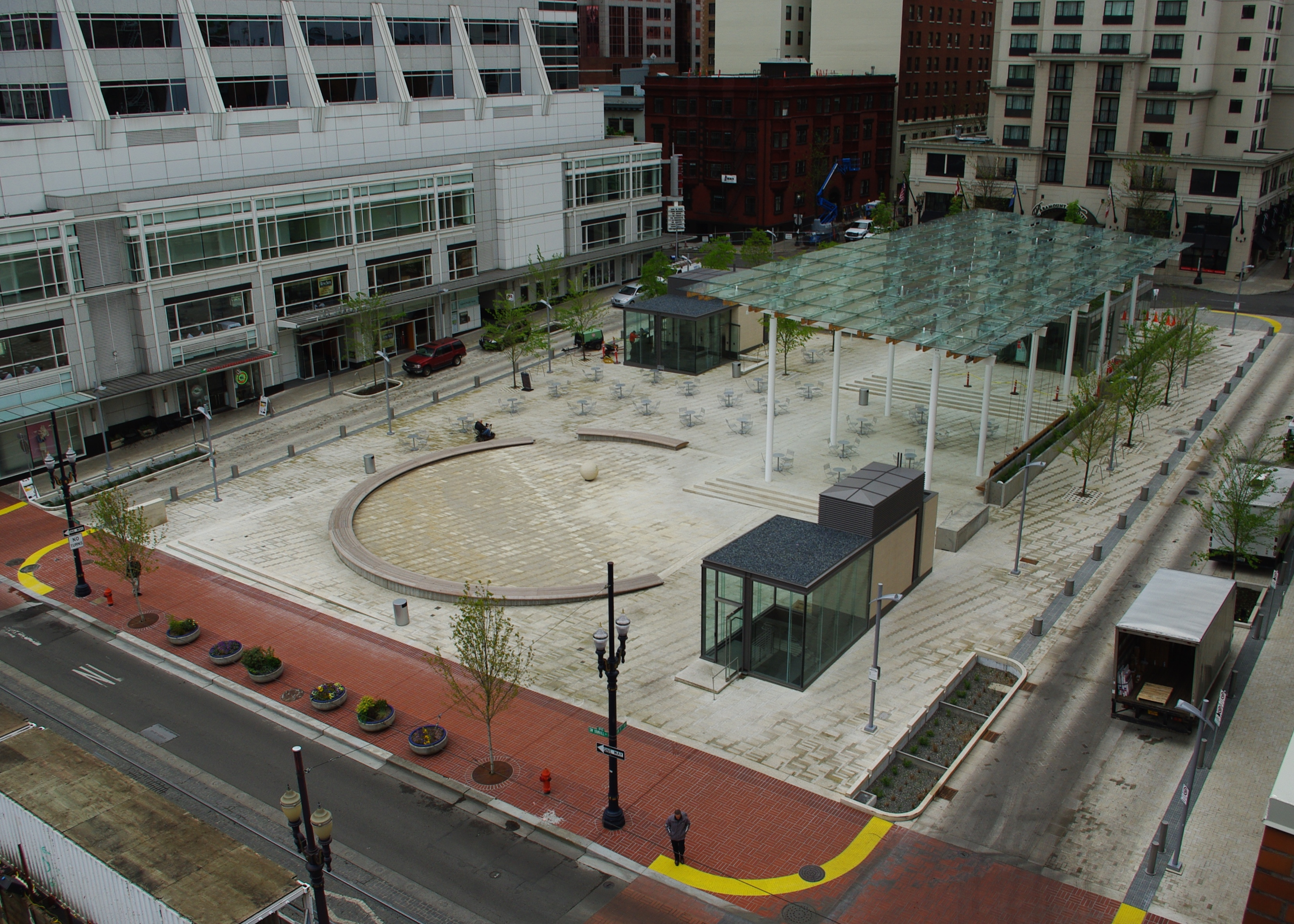 Aerial view of Director Park in Portland, Oregon.